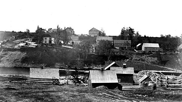 Mill, houses, and barns on hillsides on either side of river, 1887. Provincial Archives of New Brunswick number P204-296.